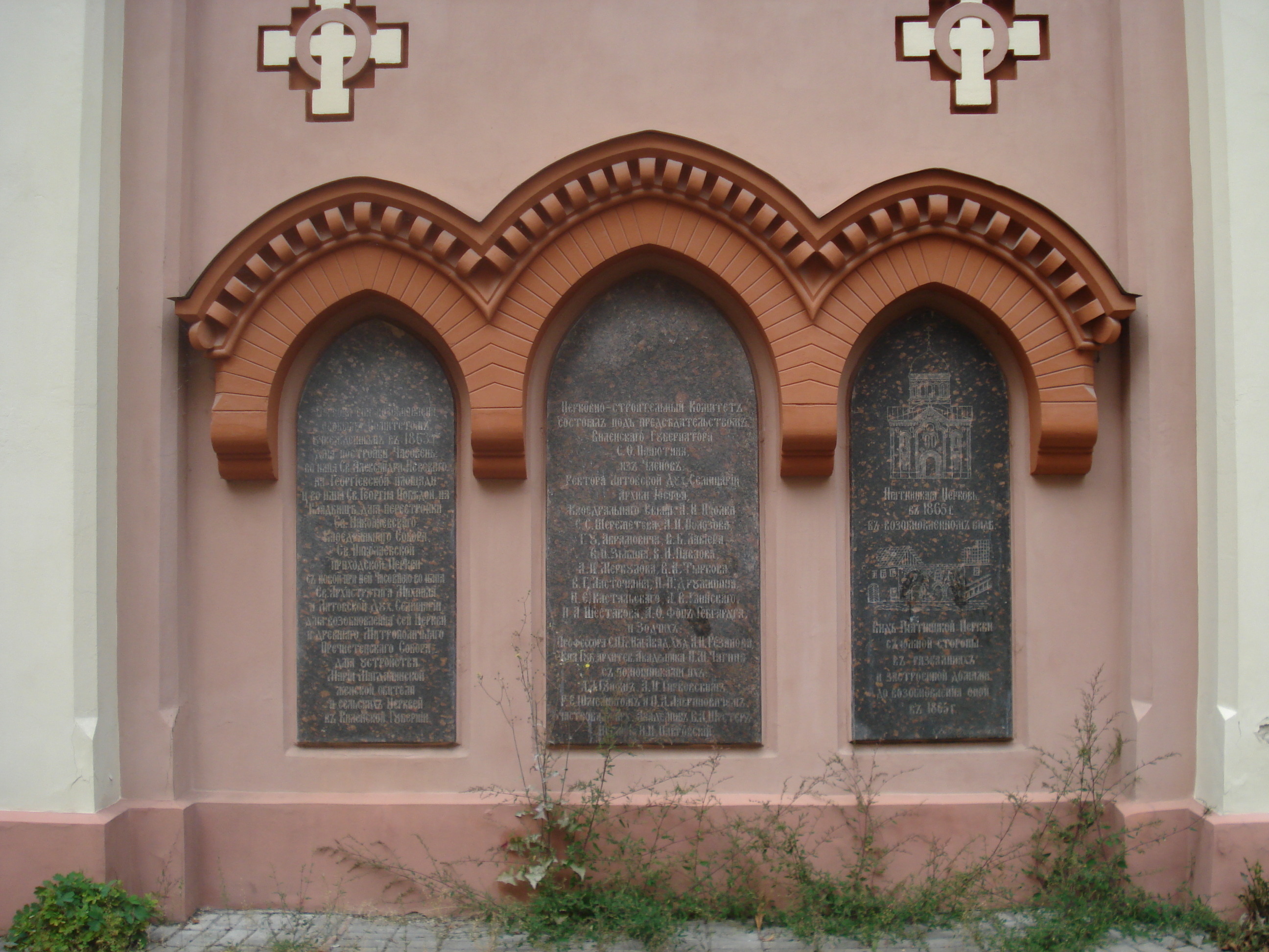 Three memorial plaques on the another wall of the Russian Orthodox church of St. Parasceve (Didžioji g. 2)